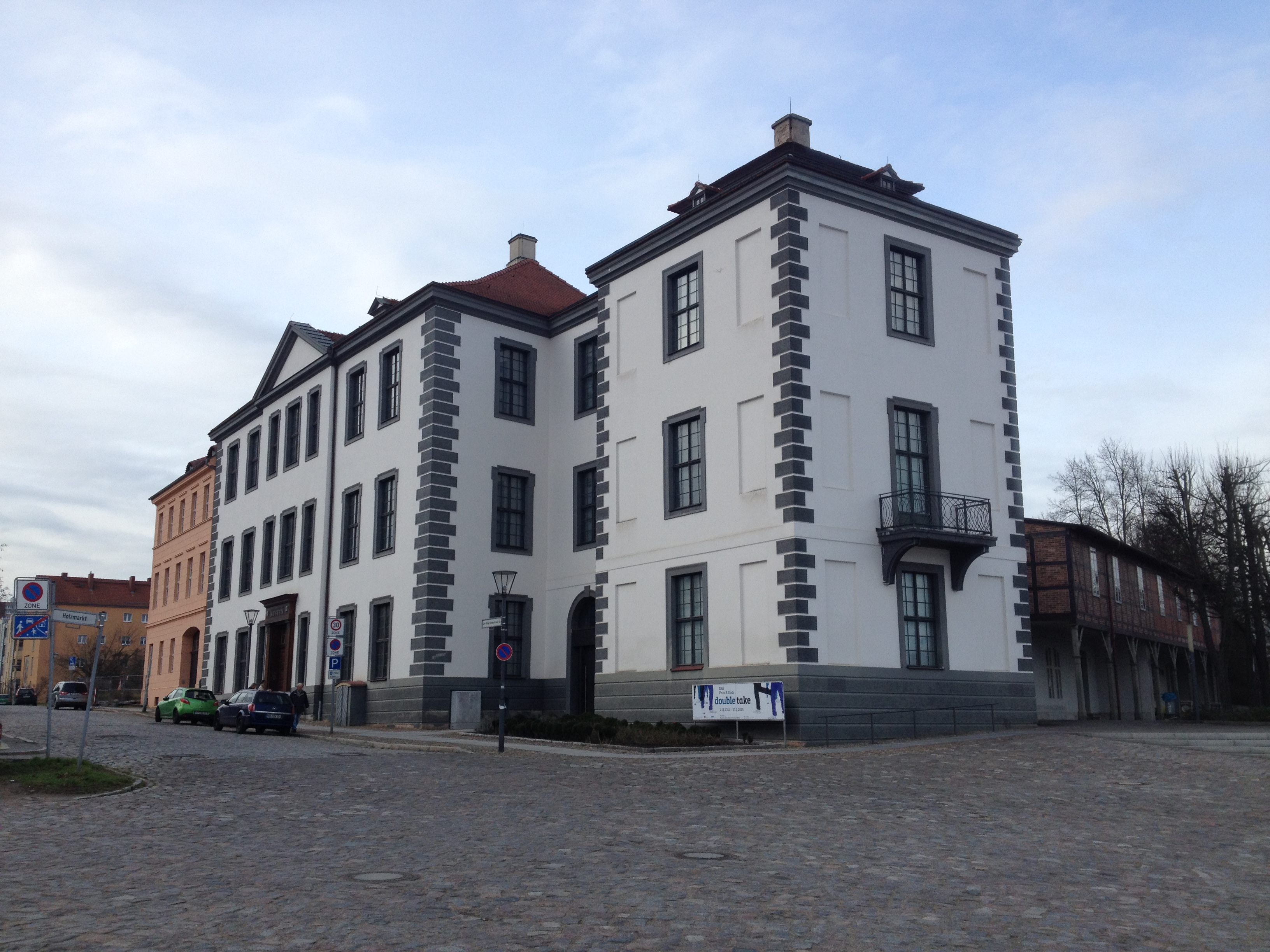 Junkerhaus Frankfurt Oder 20141213 001